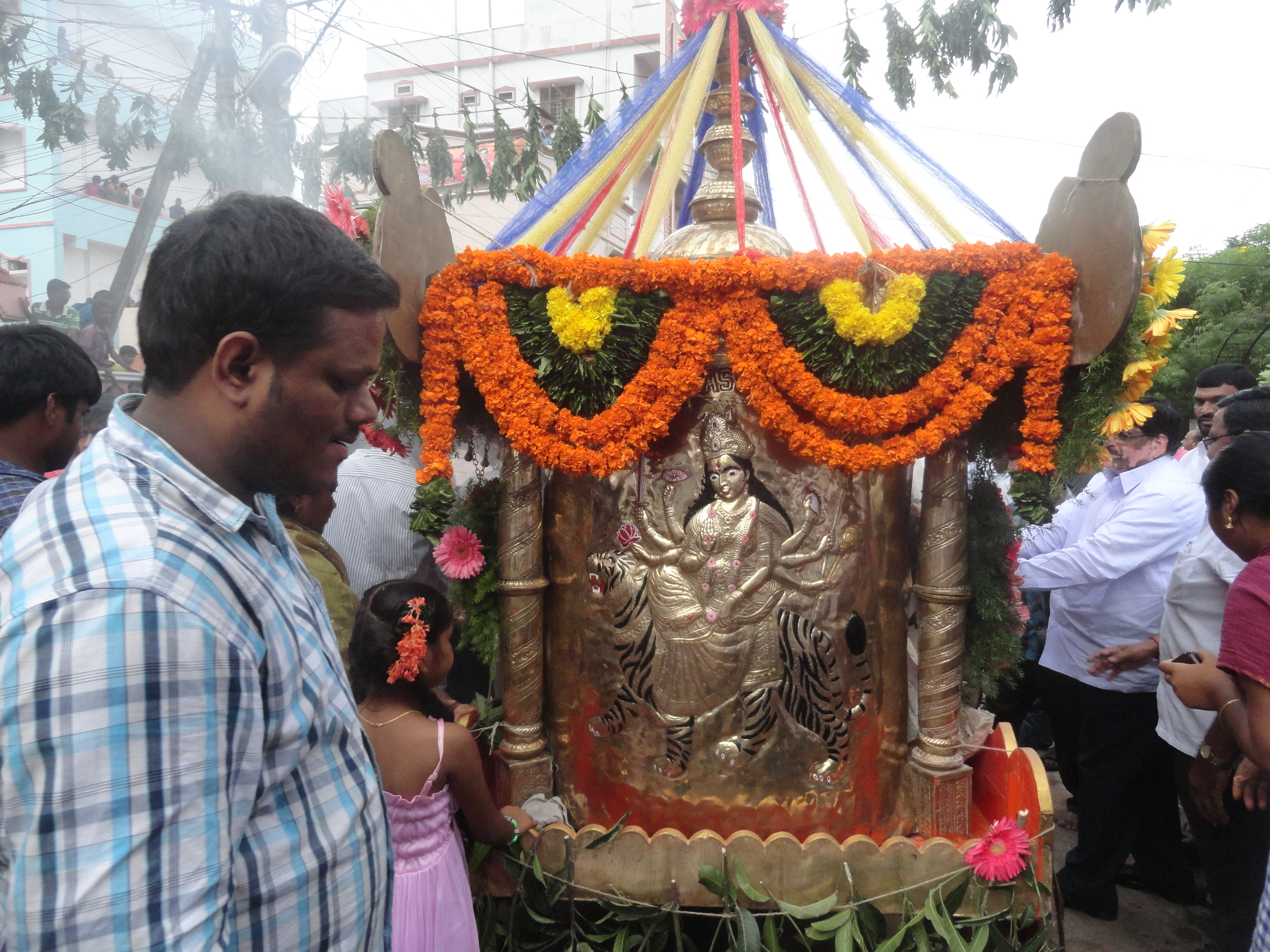 Goddess procession